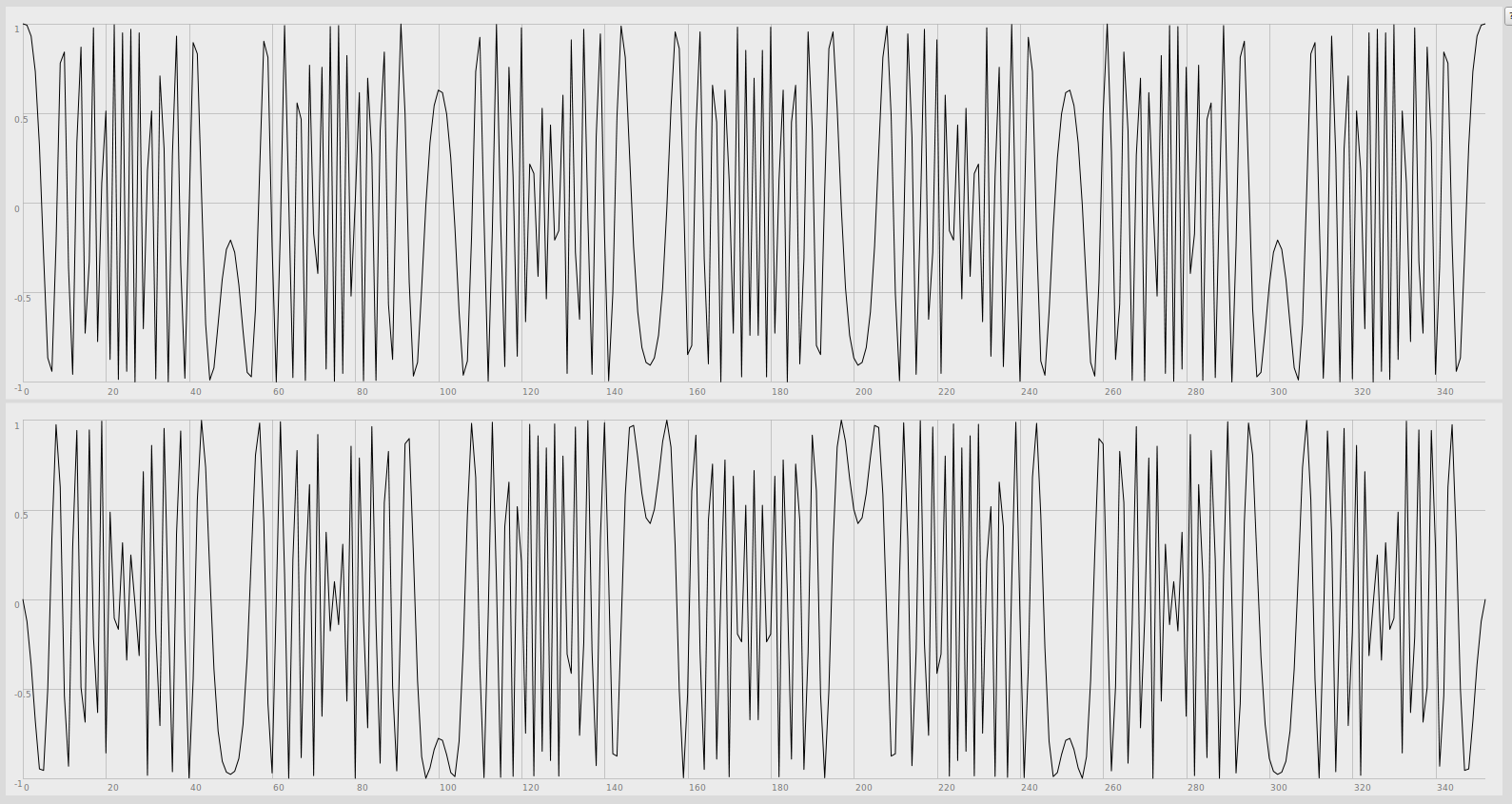 Plot of a Zadoff-Chu sequence for u=7 and N=353, showing the real (upper) and imaginary (lower) parts of the complex-valued output. Created in SuperCollider using the following code: ~zadoffchu = {|u=7, nzc=29| nzc.collect{|n| exp(Complex(0, -1) * (pi * u * n * (n+1) / nzc)) } }; ~zadoffchu.value(7, 70.nthPrime.postln).collect{|c| [c.real, c.imag]}.flop.plot